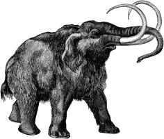 Mammoth image from US National Parks Servie - converted from .gif